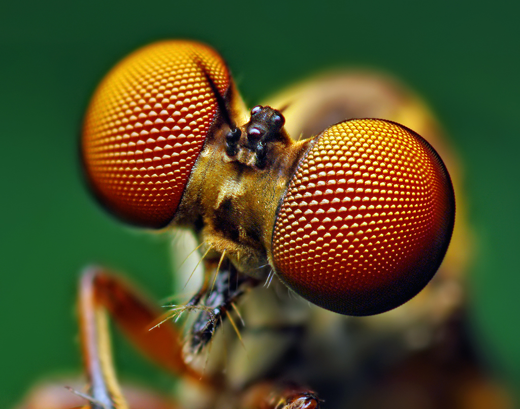 Eyes of a Holcocephala fusca Robber Fly